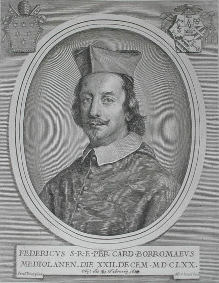 Federico Borromeo the Younger, cardinal of the Roman Catholic Church